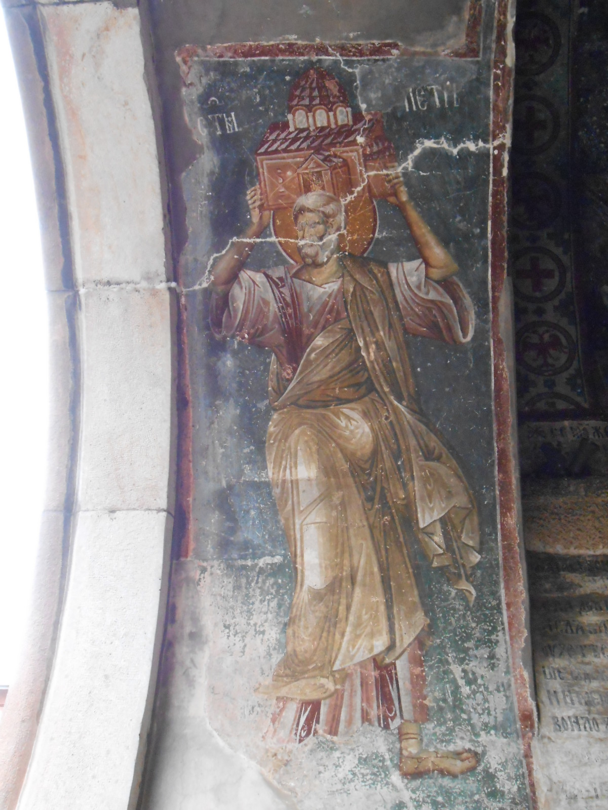 Saint Peter, Žiča Monastery, fresco